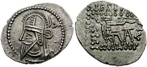 Silver Drachma of Parthian king Vologases VI. Obverse: King wearing a tiara decorated with deers and ribboned diadem. Reverse: Arsakes I, founder or the arsacid parthian dynasty, seating on a a throne and holding a bow, greek legend A monogramm under the bow. Ecbatan mint (actual Hamedan city).